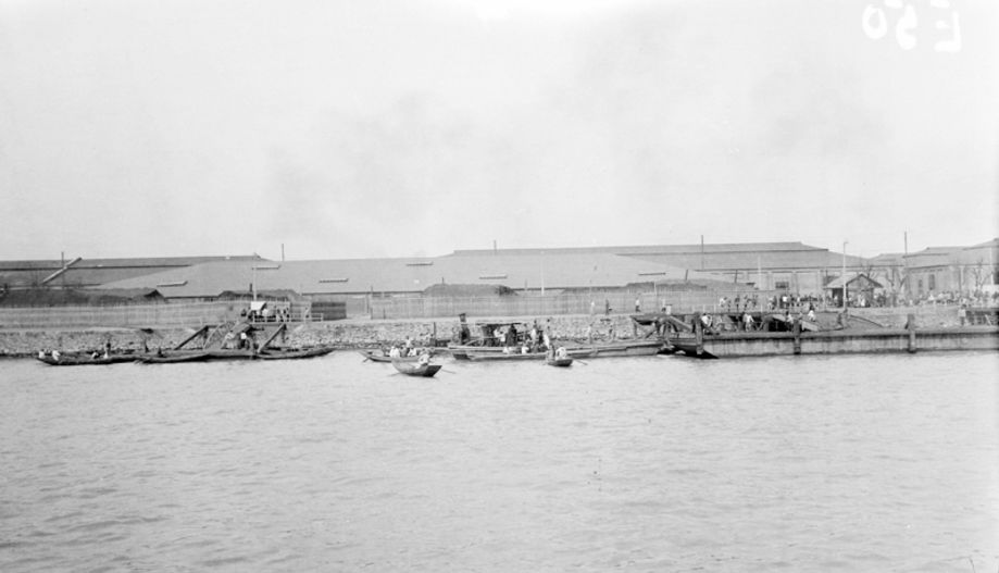 Junks at Pudong, Shanghai